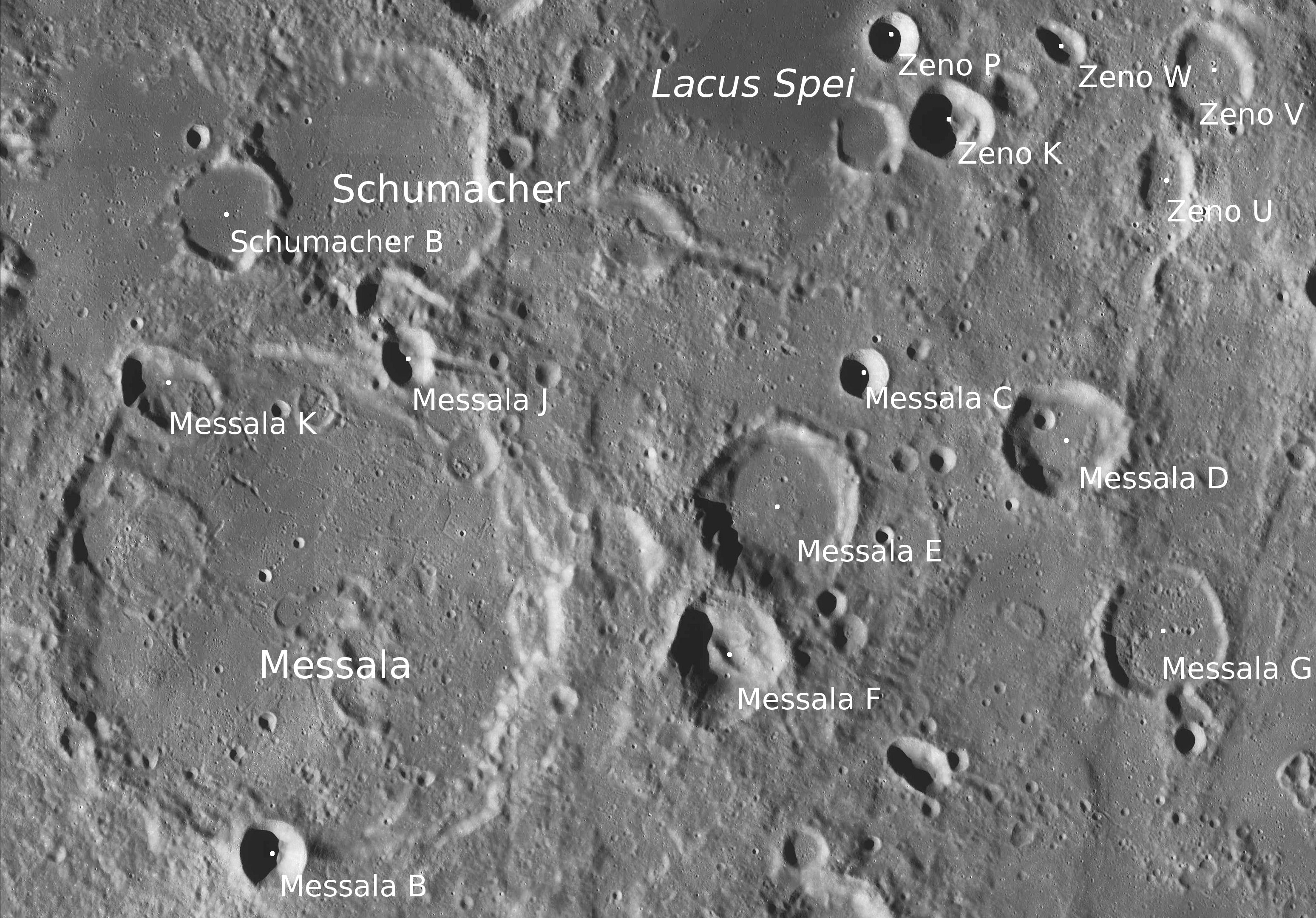 Craters Messala and Schumacher (detail of LRO - WAC global moon mosaic; Mercator projection)